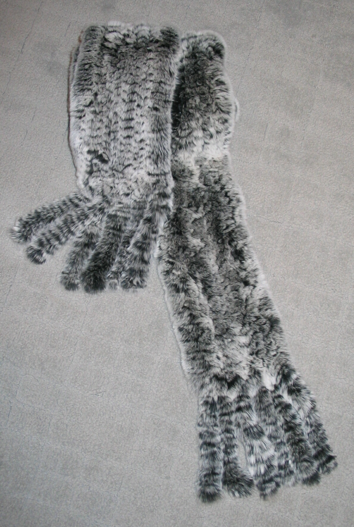 Rex rabbit shawl, China